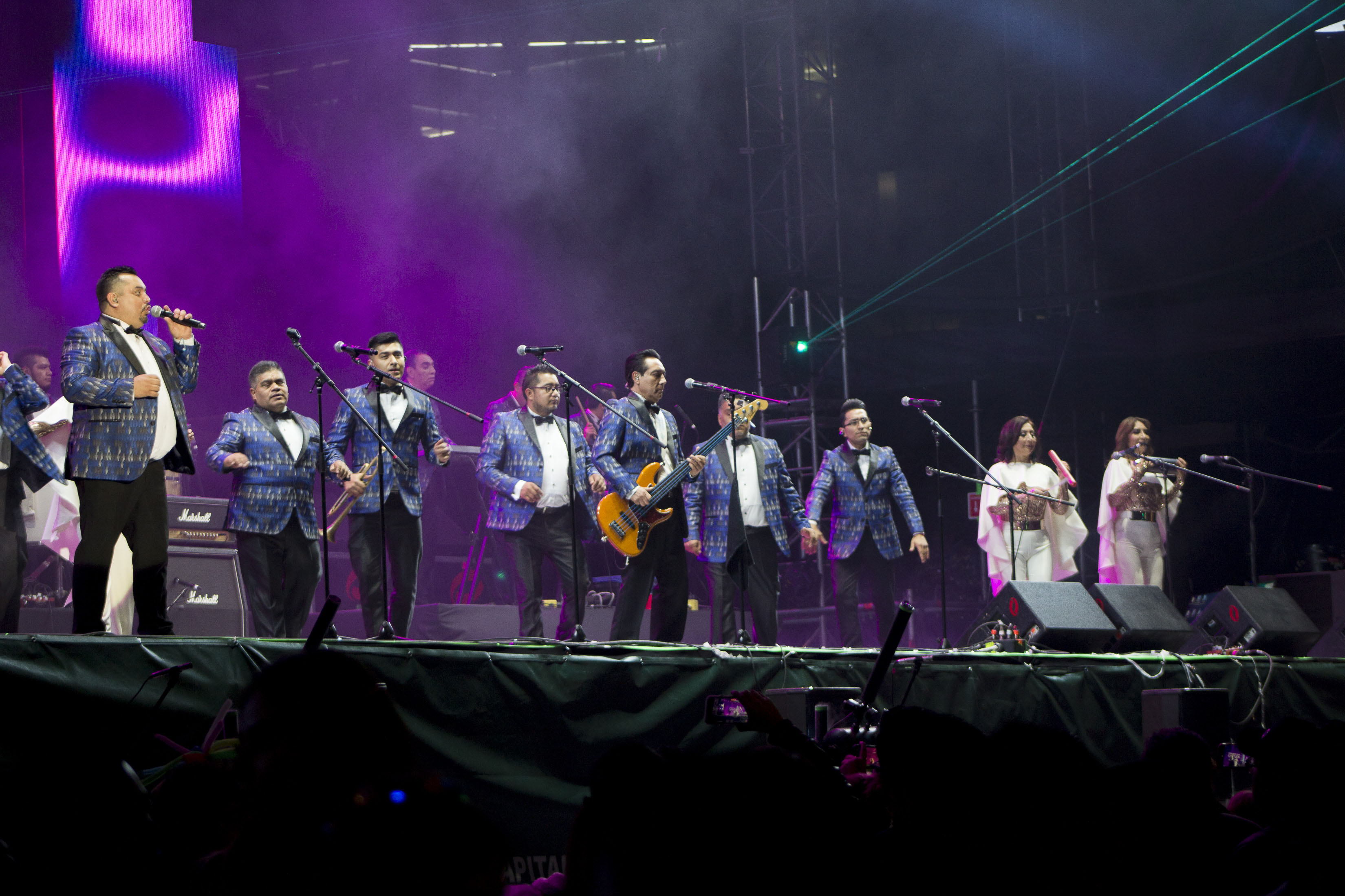 Los Ángeles Azules performing on stage in Mexico City. Tuesday, 31 December 2019. Picture by Karla Gil / Secretaria de Cultura de la Ciudad de Mexico.